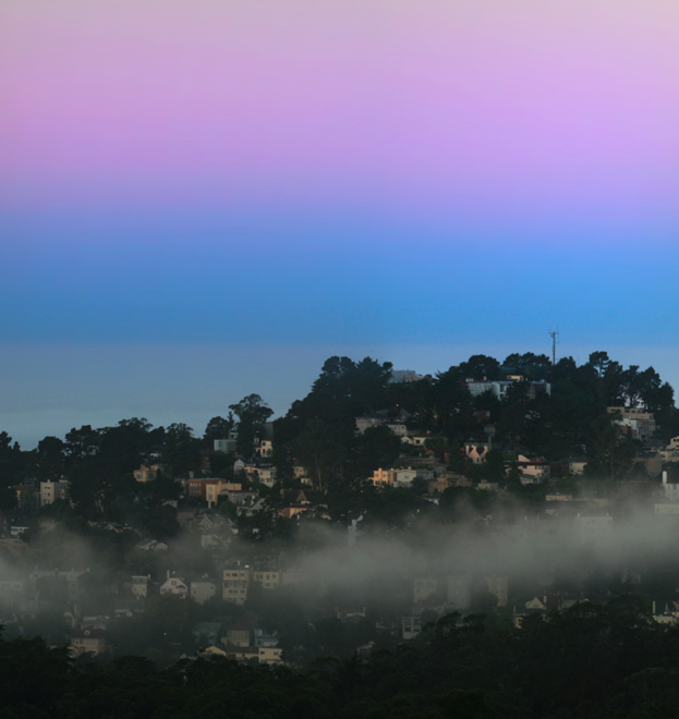 Earth's shadow and Belt of Venus. The image was taken at sunrise in San Francisco